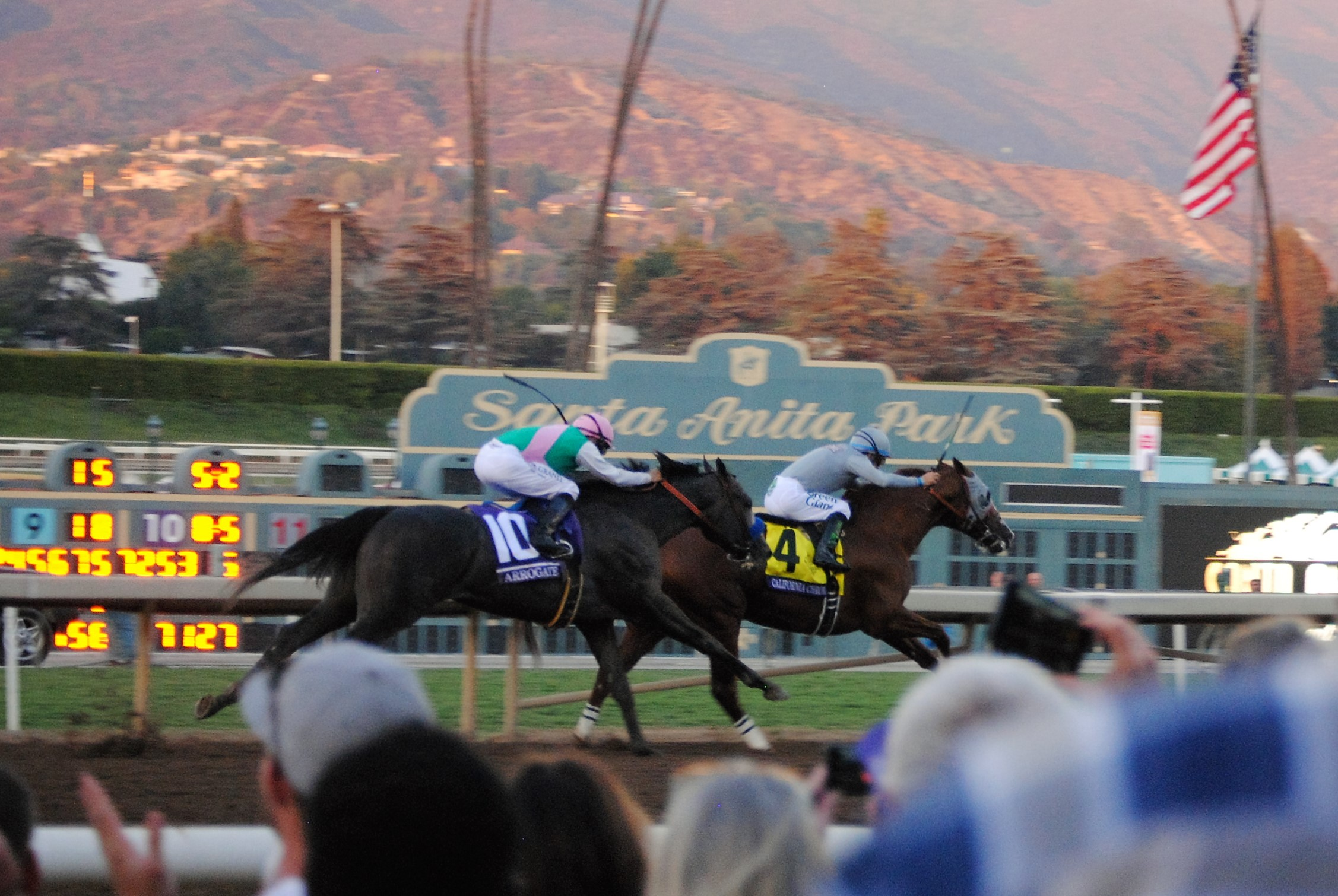 With about a sixteenth of a mile to go, California Chrome's lead is half a length. It won't last.